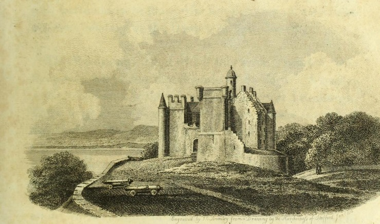 Dunrobin Castle, Sutherland, Scotland, circa 1813.